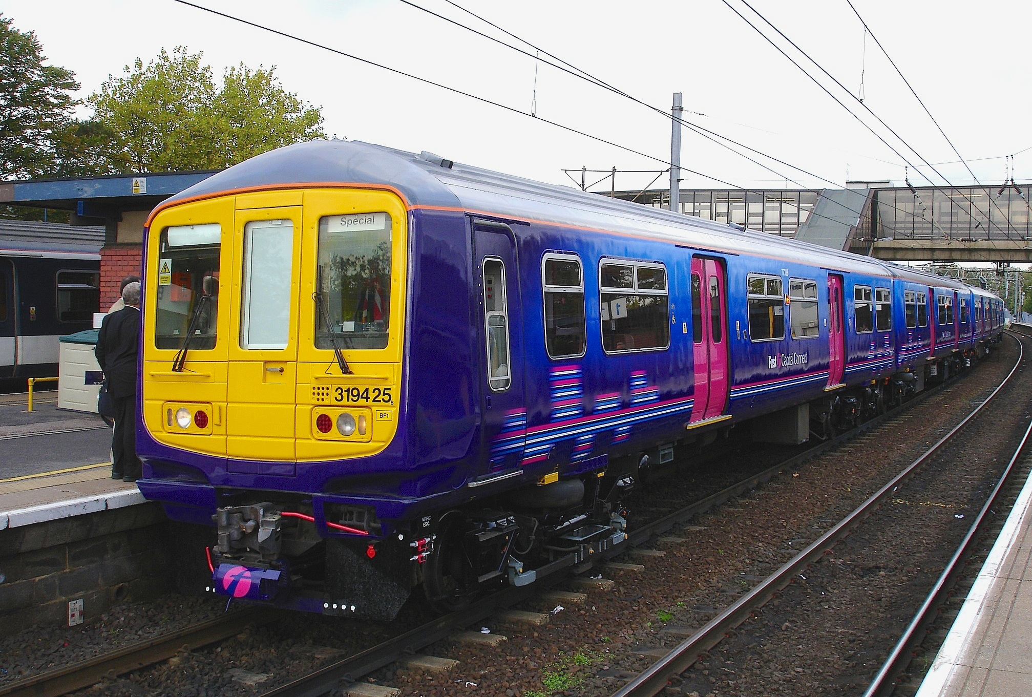 The first Class 319/4 to be refreshed by First Capital Connect - No. 319425 at Bedford